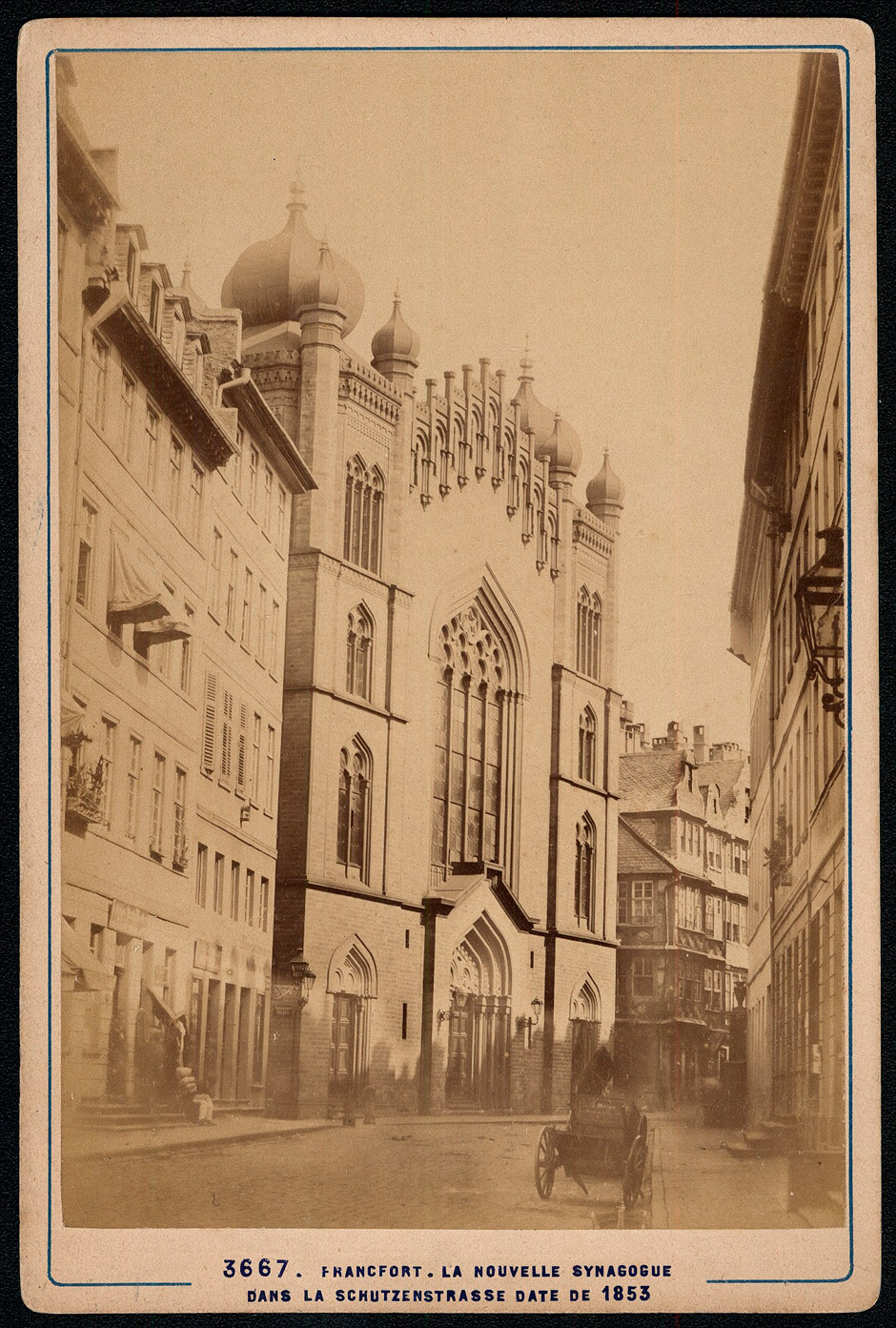 Judengasse, Frankfurt. Circa 1860-80s. Abumen print.